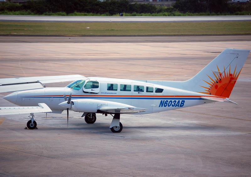 Air Sunshine Cessna 402C at San Juan International.